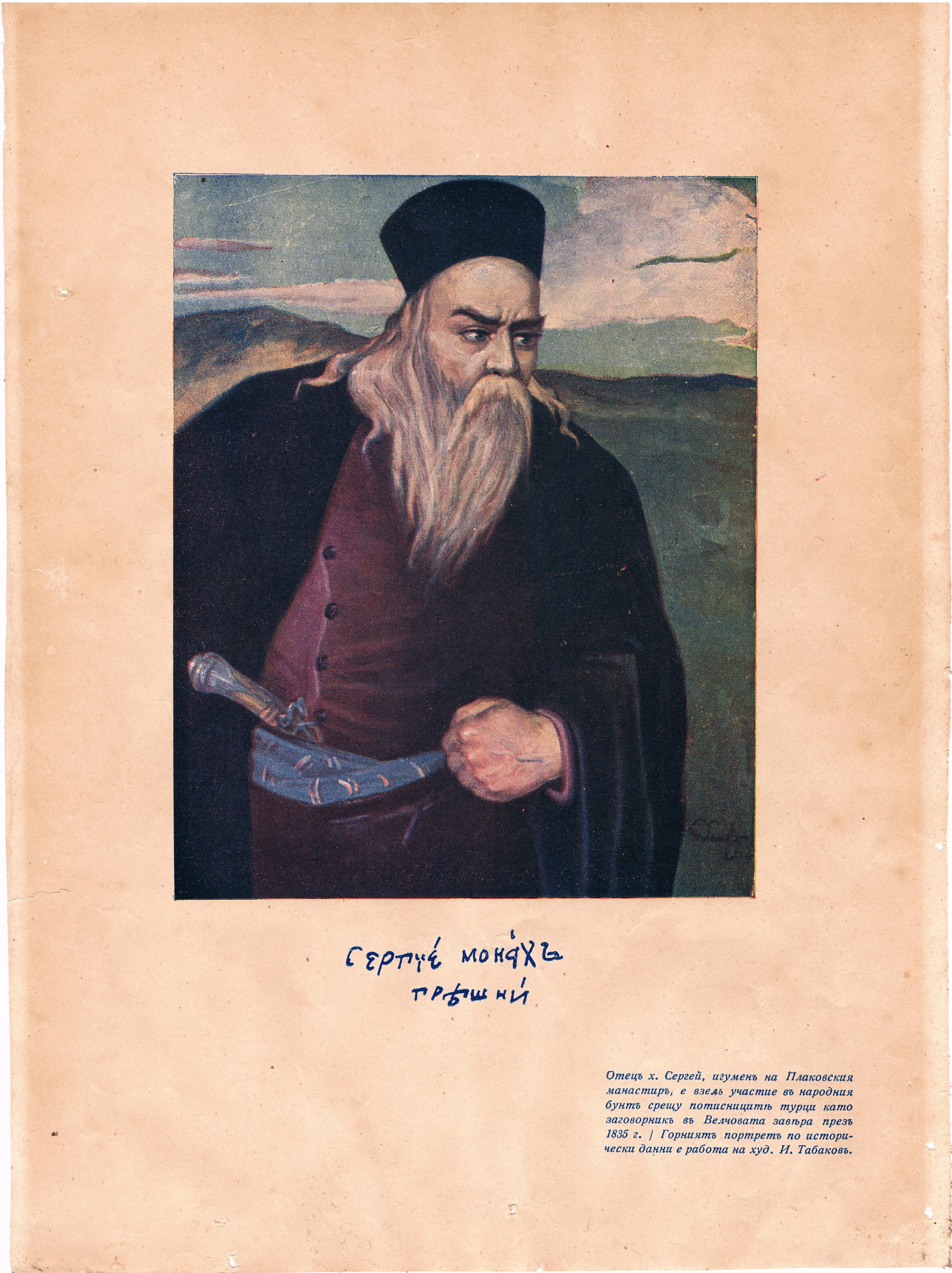 Father Hadji Sergiy, Abbot of the Plakovski Monastery, took part in the Velchova Zavera in 1835. This portrait of historical data is the work of the artist Ivan Tabakov.